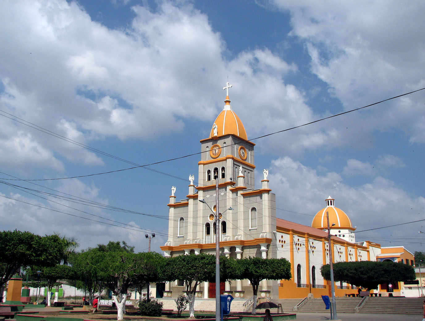 San Jose Parish of Cienaga de Oro. Central Park